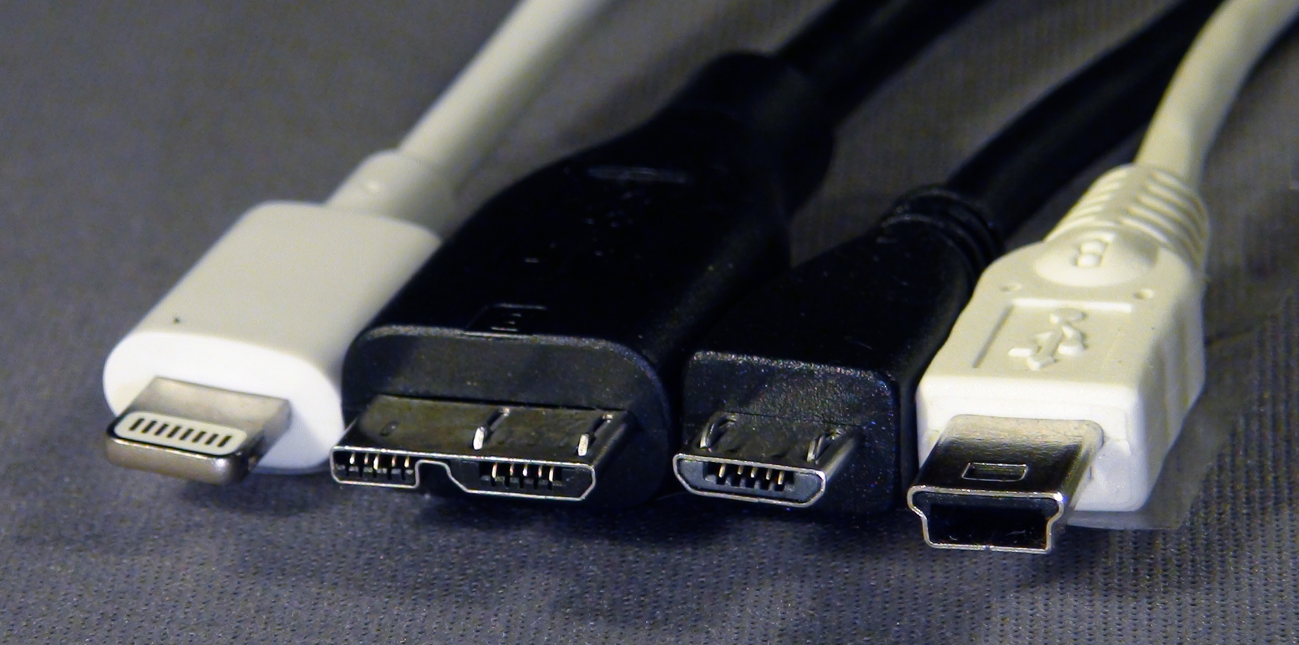 The common plugs used to charge phones, as of 2013. (The new flippable USB is not out yet.) From Left to right, Apple's lightning plug, Micro USB 3.0, Micro USB, Mini USB. On grey background.